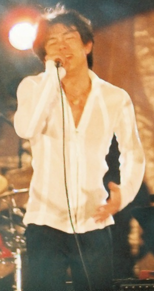 Miyazawa Sick Band - Kazufumi Miyazawa and Claudia Oshiro - Europe Tour 2005 (Przemyśl)